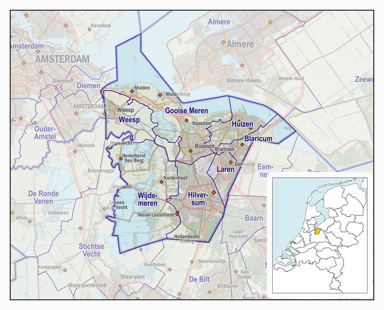 Map of the Dutch Safety Region, with an impression of the terrain and the municipal borders as of 1-1-2017.